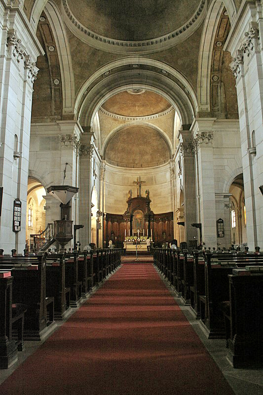 Cathedral Church of the Redemption, very marvelous Church in Delhi